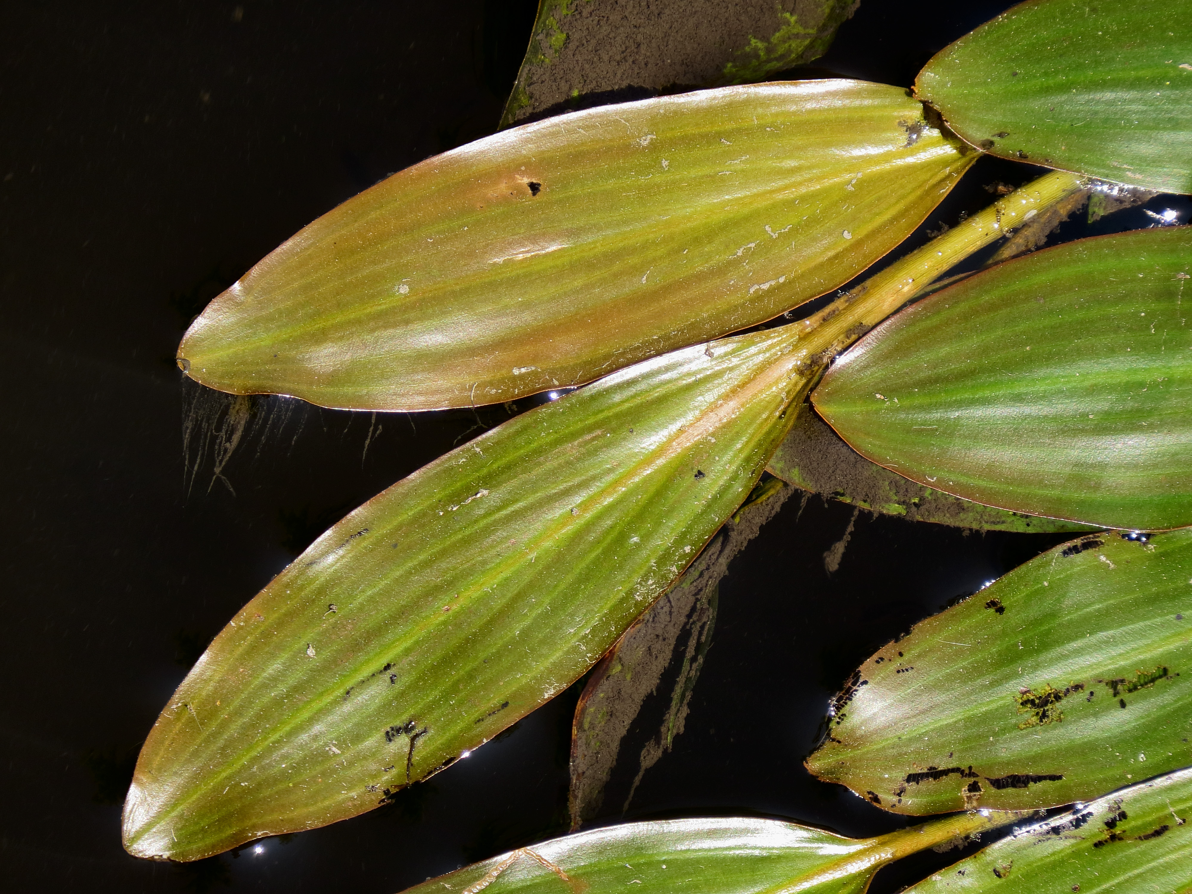 Potamogeton natans in Nyvka (Borshchahivka) river, Sofiivska Borshchahivka, Kiev oblast, Ukraine